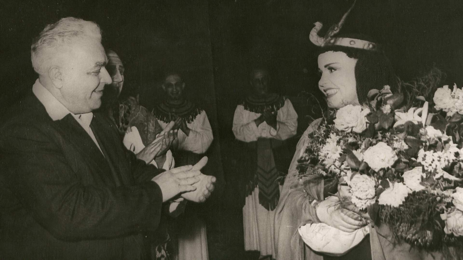 Photograph of the Finnish opera vocalist Maiju Kuusoja (1925–2008) in the role of Amneris of Aida.